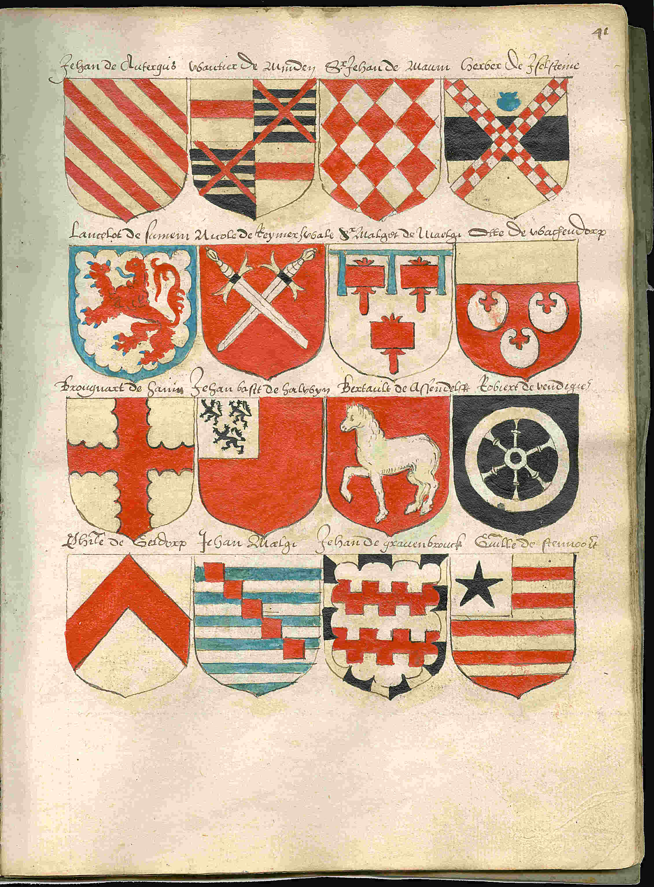 Page 41 from a copy of the Beyeren armorial / Wapenboek Beyeren from ca. 1600. The original Beyeren armorial from 1405 can be viewed at the website of the KB